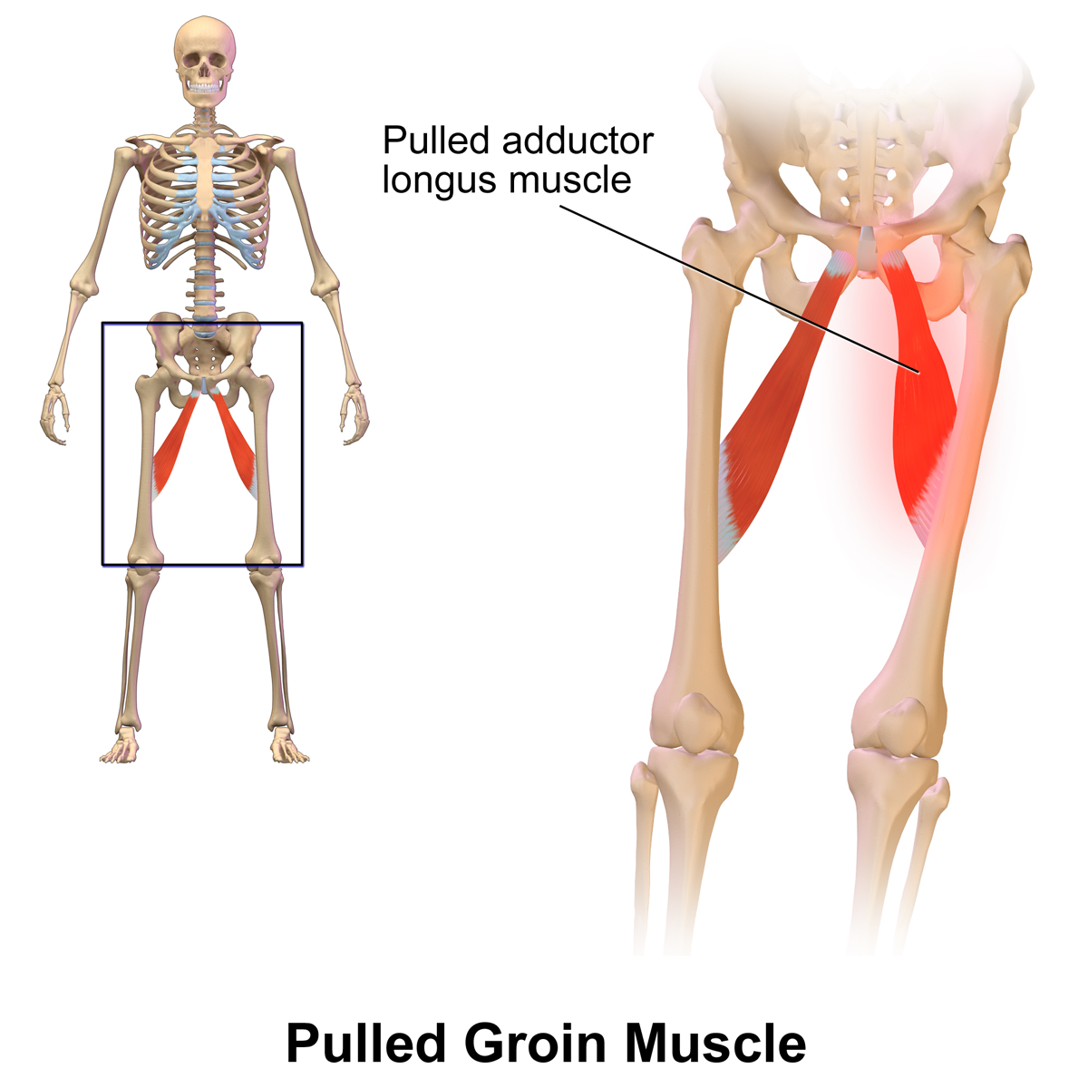 Pulled Groin Muscle. See a full animation of this medical topic.